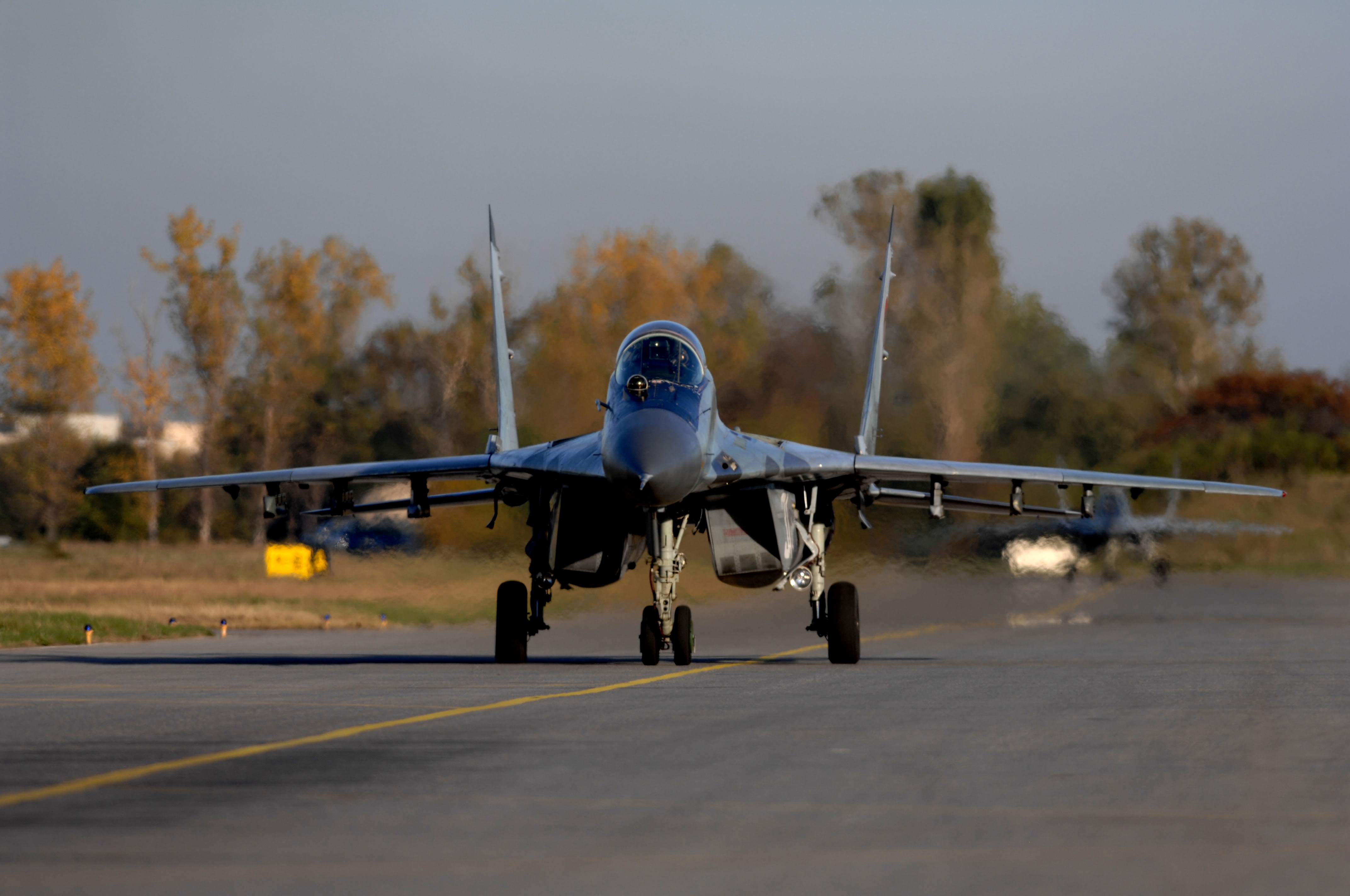 A Bulgarian MiG-29 aircraft taxis toward the end of runway for take off as part of exercise Rodopi Javelin 2007 at Graf Ignattevo Airfield, Bulgaria, Oct. 18, 2007. Over 250 U.S. Air Force Airmen from Aviano Air Base, Italy, are joining with the Bulgarian air force to train together during the exercise. (U.S. Air Force photo by Staff Sgt. Michael R. Holzworth) (Released)..